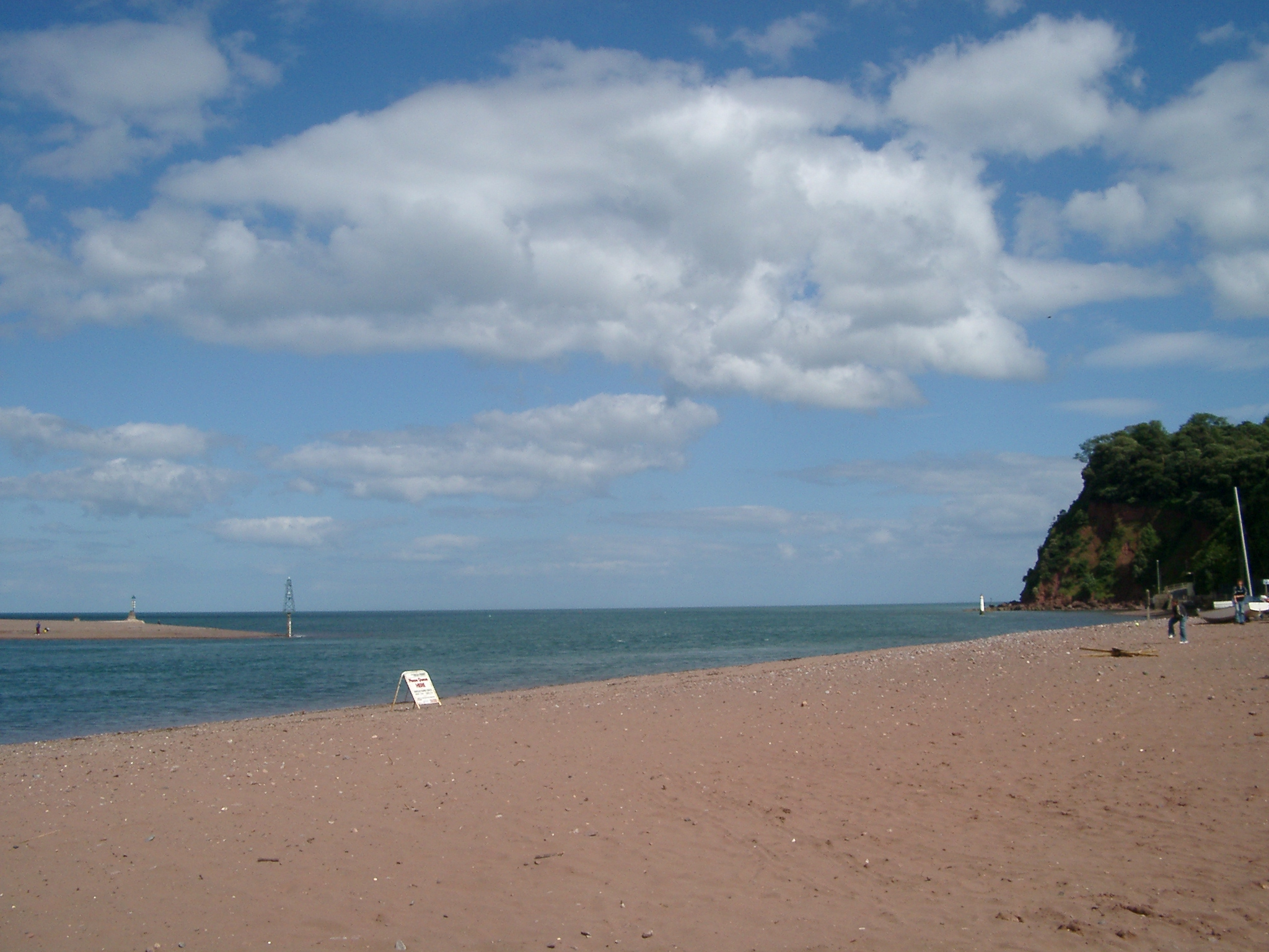 Sign marking boarding point for person ferry to Teignmouth, background: The Ness